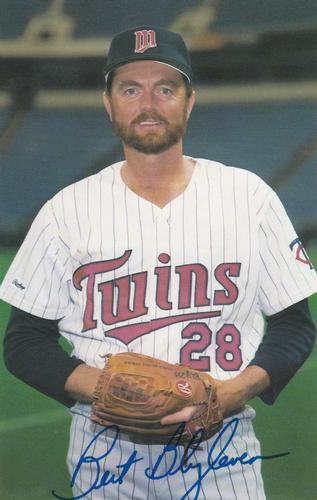 Professional baseball player Bert Blyleven